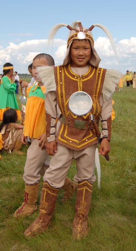 Sakha boy in Yakutsk.